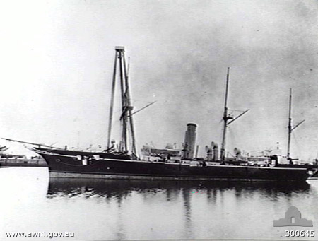 AWM Caption: PORT SIDE VIEW OF THE SLOOP HMS FANTOME. HER THREE PORT 4 INCH GUNS ARE TRAINED ON THE BEAM.